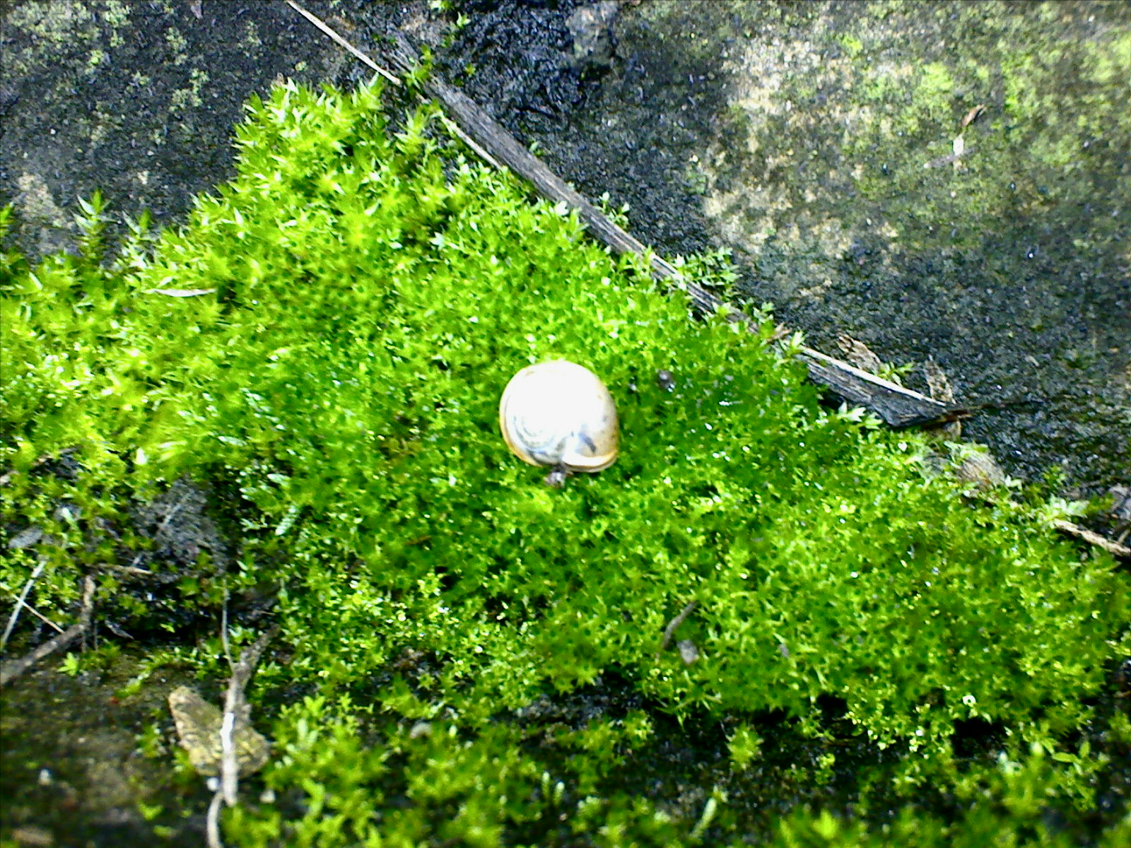 Moss